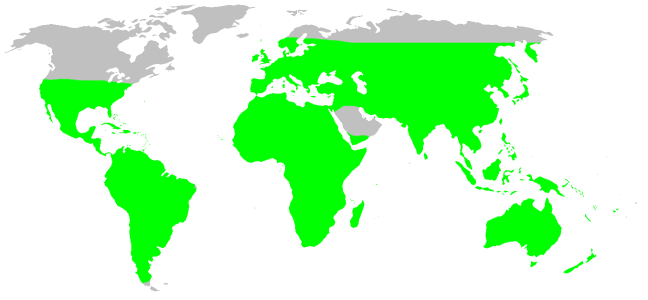 Miturgidae habitat distribution, drawn after Platnick: World Spider Catalog 7.0. This is not at all a precise rendering of the distribution! If you have better information, please replace this map, or send me the info, and i will redraw it.